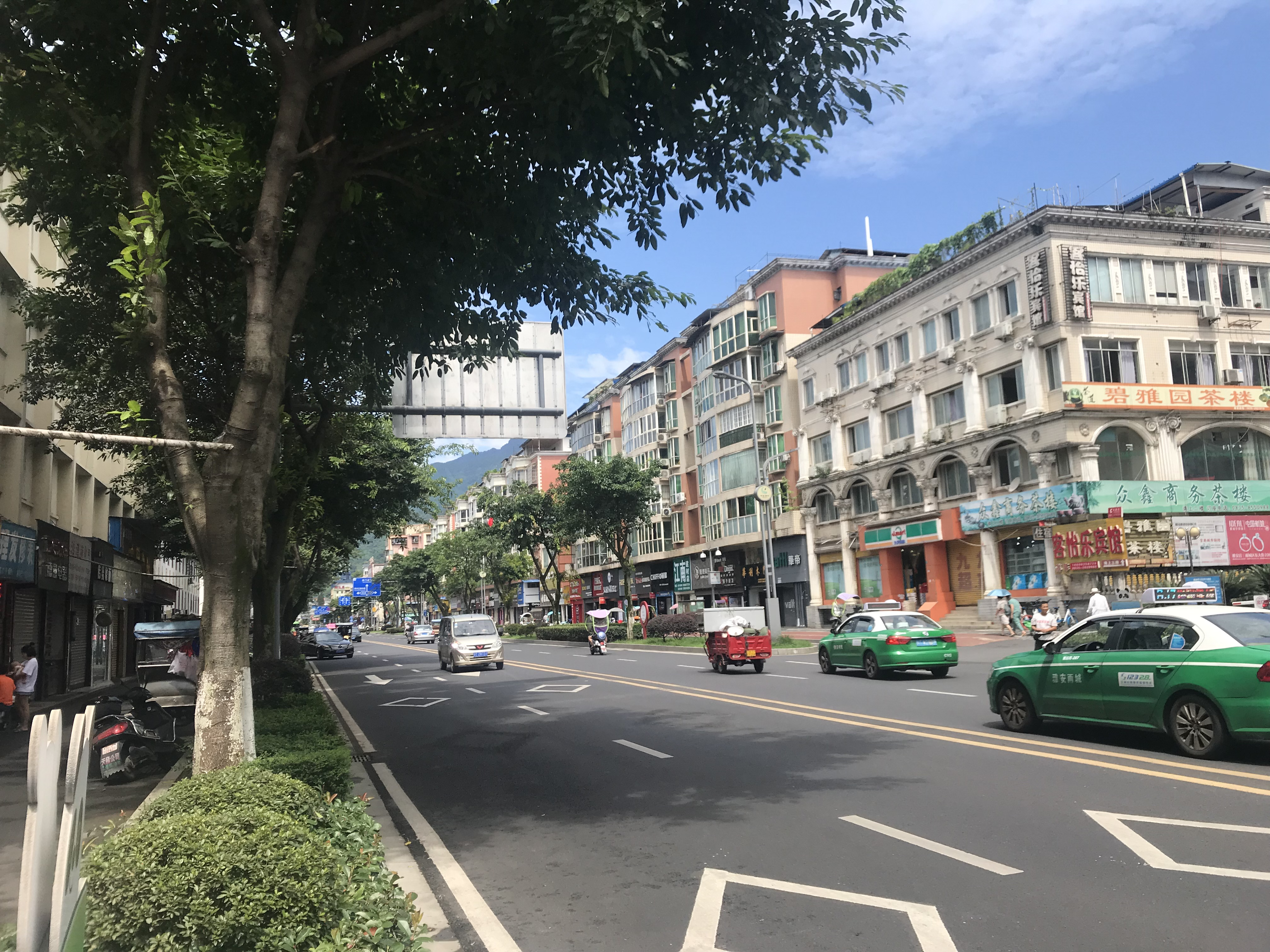 Kangzang Road actually means "Kham/Xikang-Tibet Road"